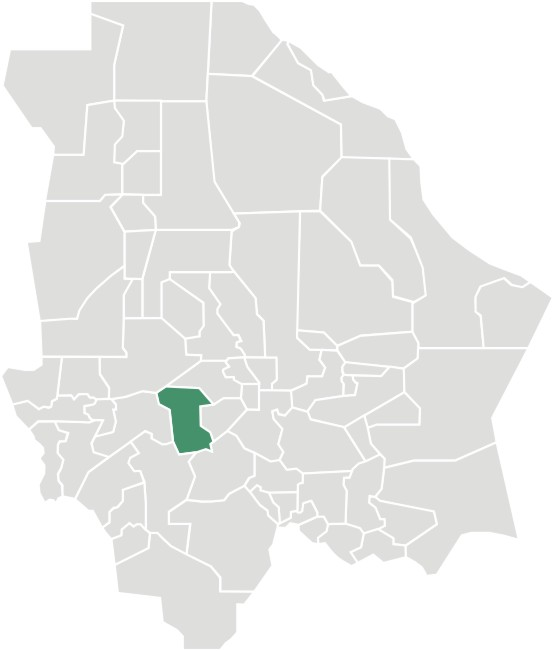 Map of the Municipalty of Carichi in the State of Chihuahua, México.